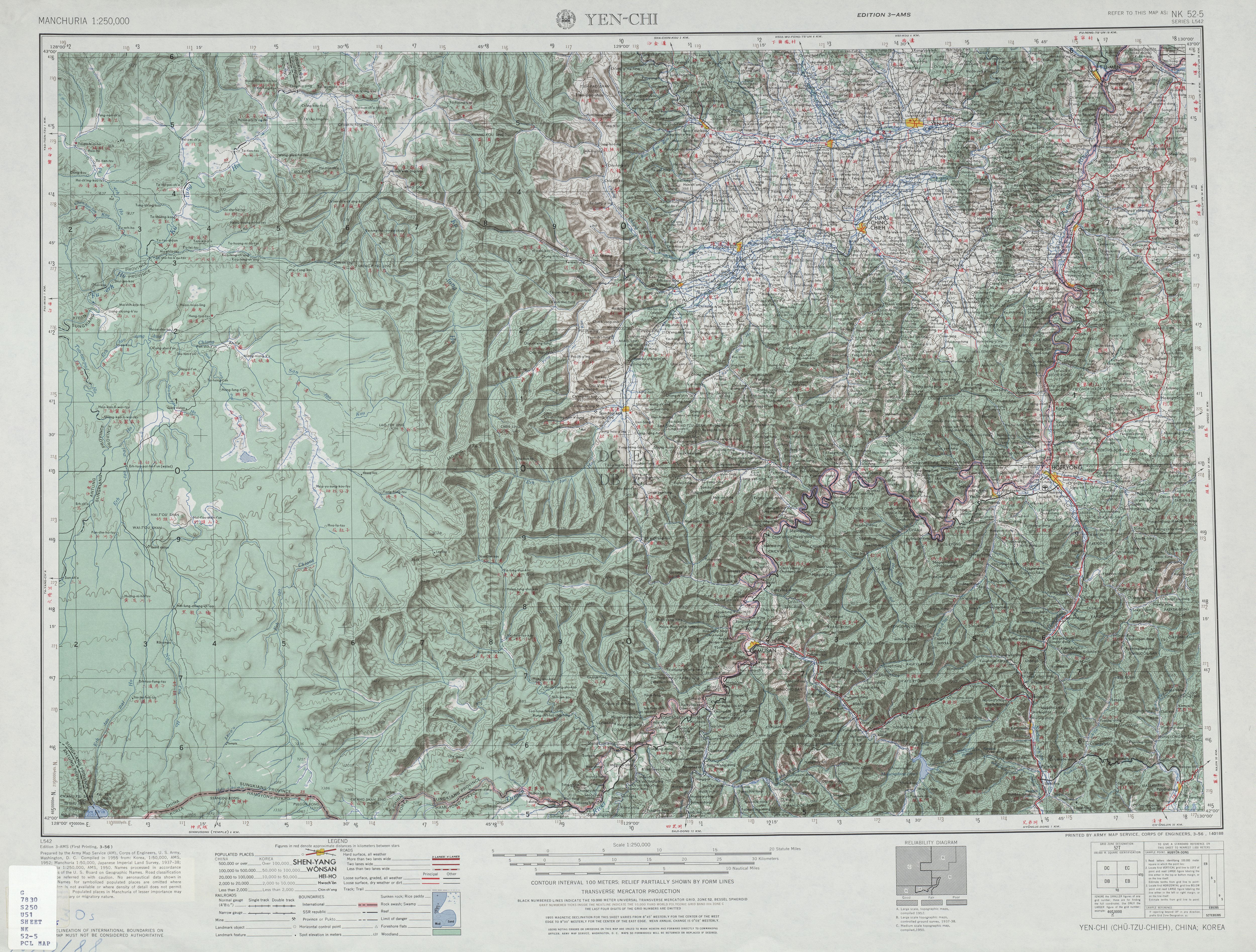 Map of Yanji (Yen-chi, Chü-tzu-chieh) area, in Jilin